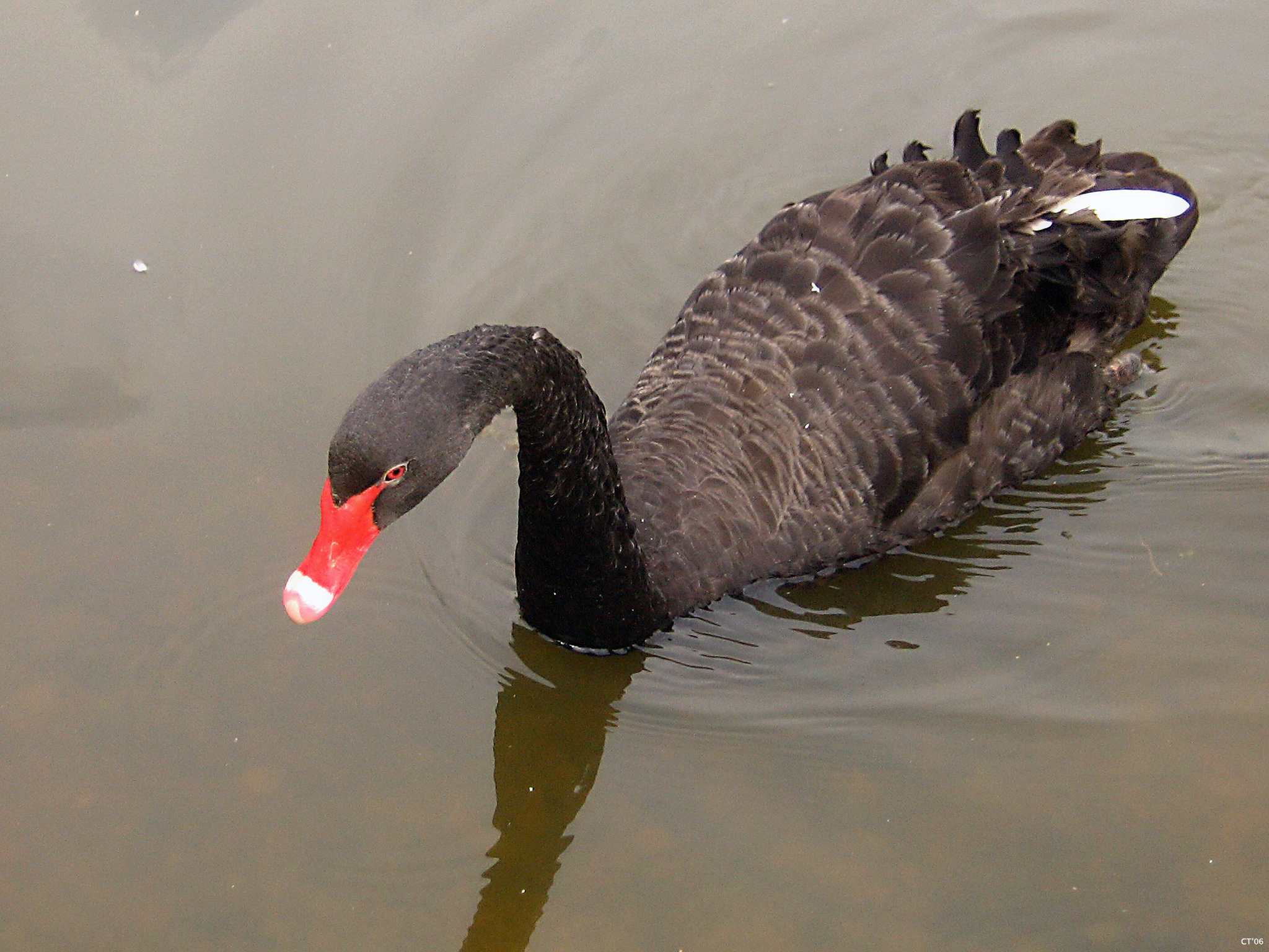 A Black Swan (Cygnus Atratus) in the Singapore Botanic Gardens.